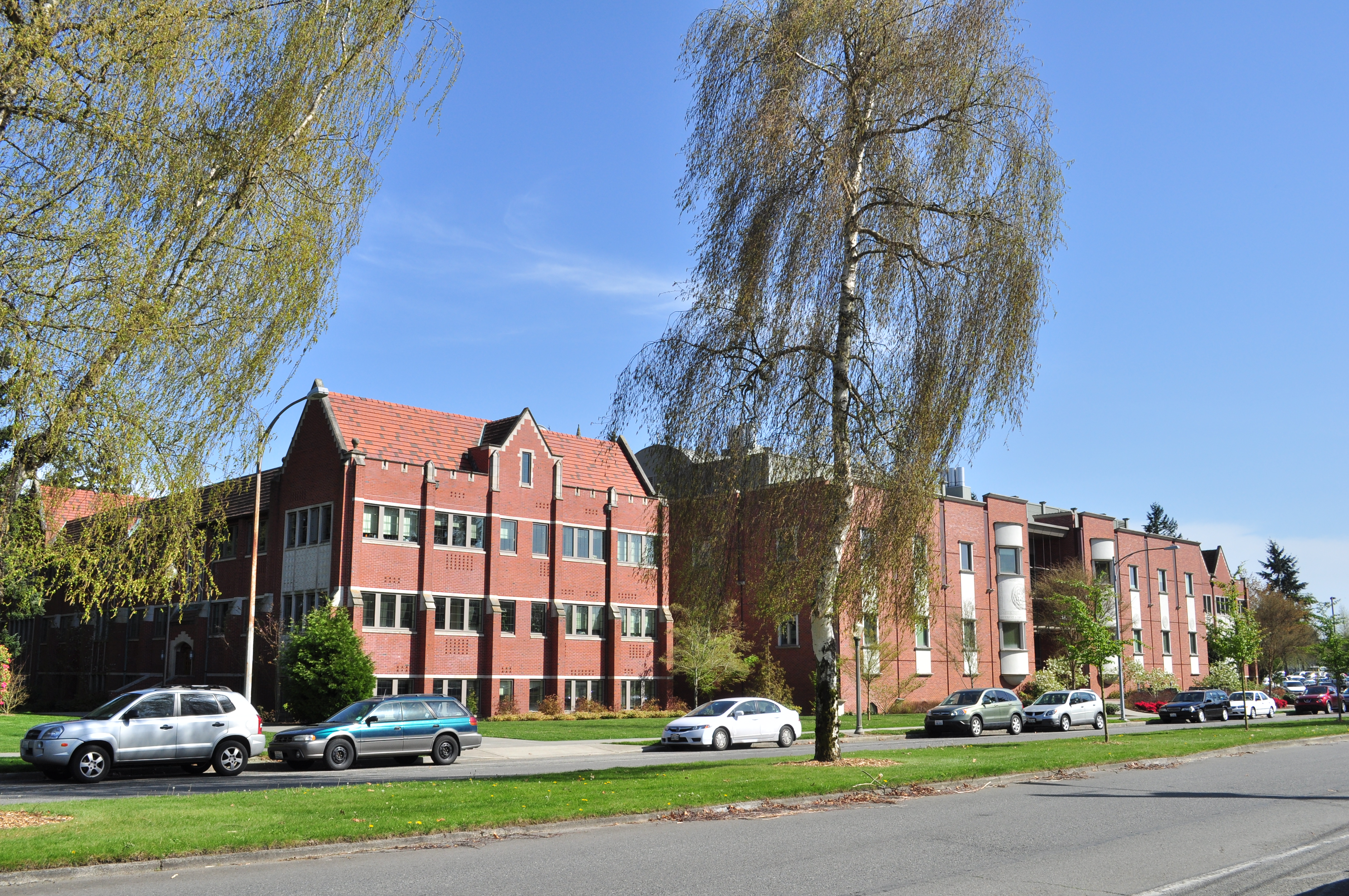 Harned and Thompson Halls along Union Avenue, University of Puget Sound, Tacoma, Washington. Thompson Hall later became Slater Museum.